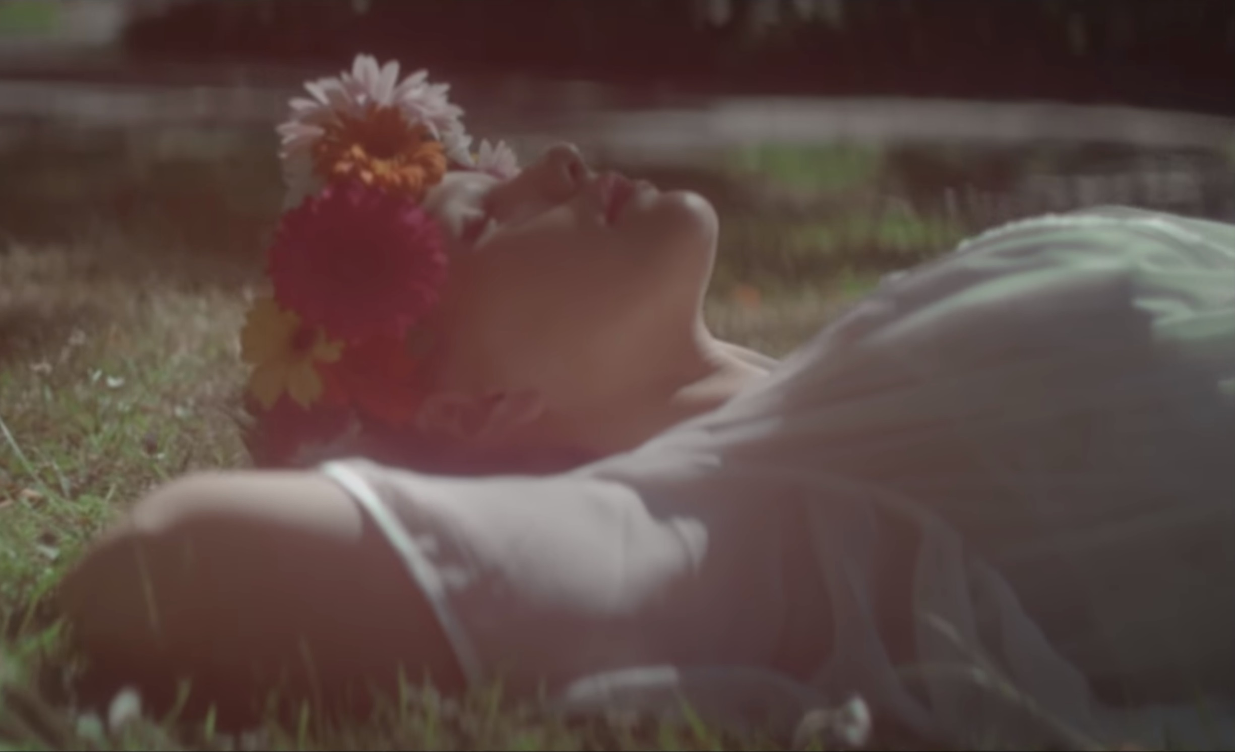 A Tribute to Elly Mayday (A Perfect 14) Ashley Shandrel Luther April 15, 1988-March 1, 2019 Filmed For the Feature Documentary A Perfect 14 Starring Elly Mayday Written & Directed by Giovanna Morales Vargas Produced & Edited by James Earl O’Brien Segment Credits: Camera: Rob Bannister Color: Aerlan Barrett Hair & Makeup: Elizabeth McLeod Music: Dissociation (Most Sad Piano Music) - NAOYA.S